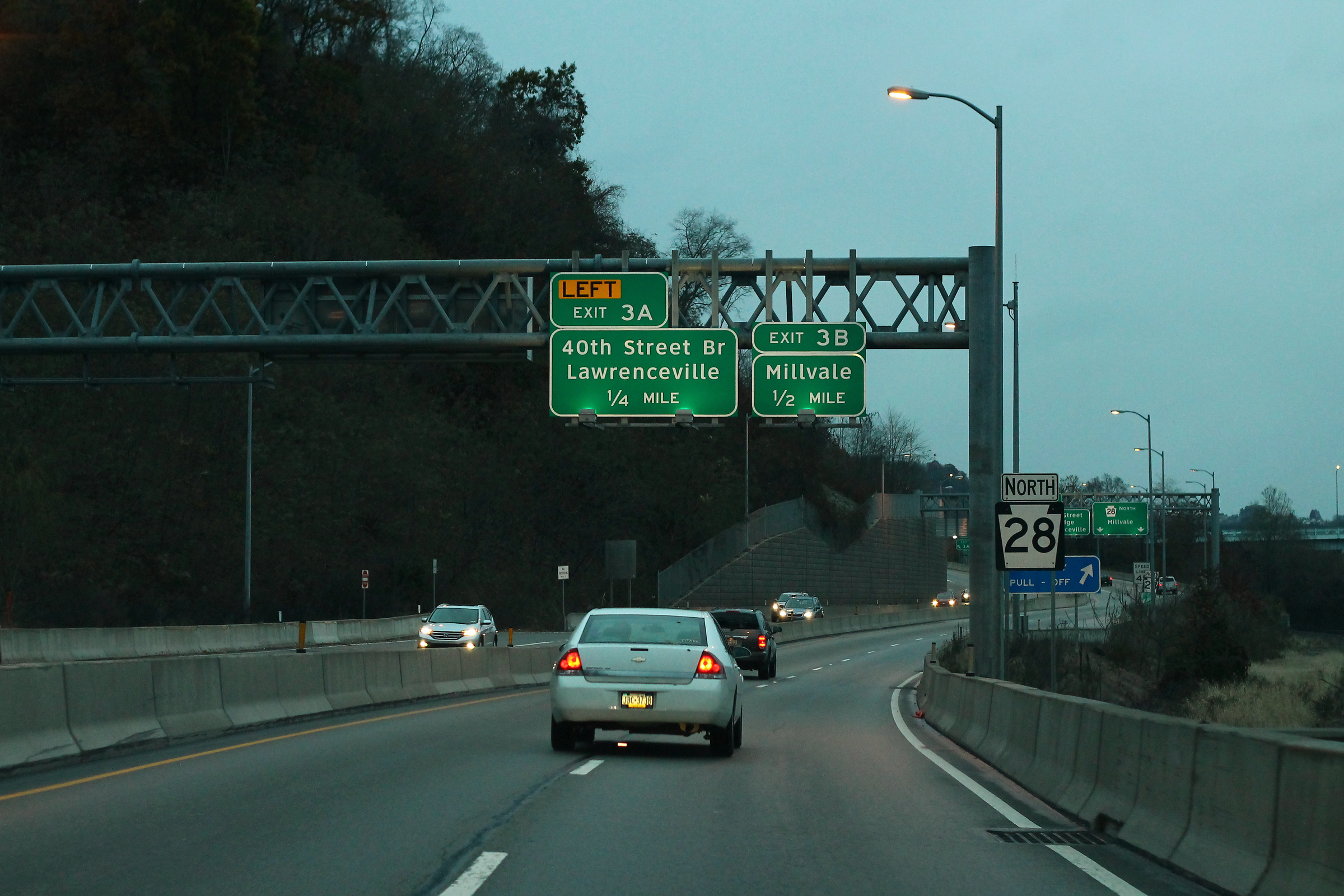 PA28nRoadSign-MM3